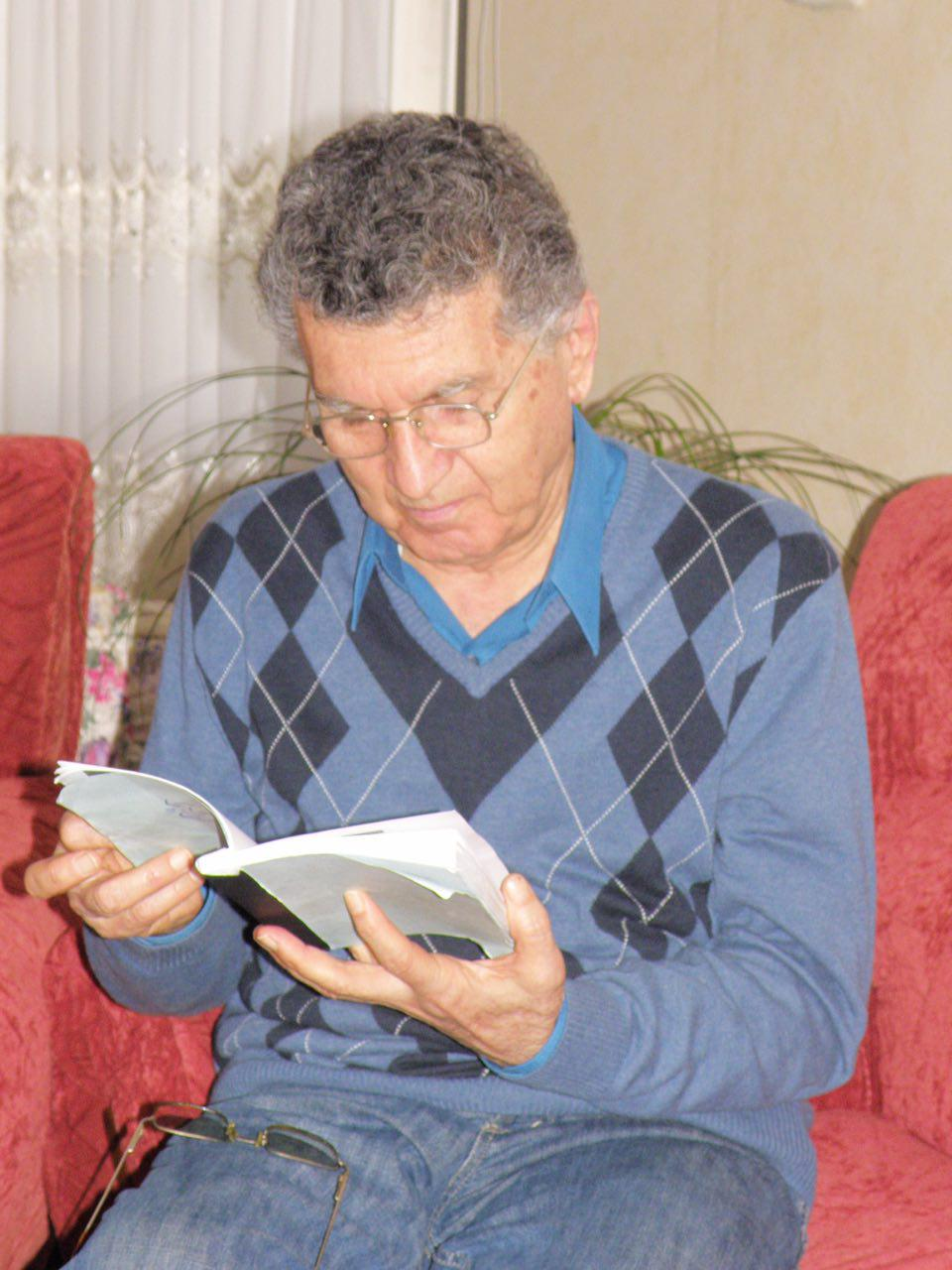 Iranian poet Ciyos Guran is reading another writer's(Mansour Hedayati's) book.